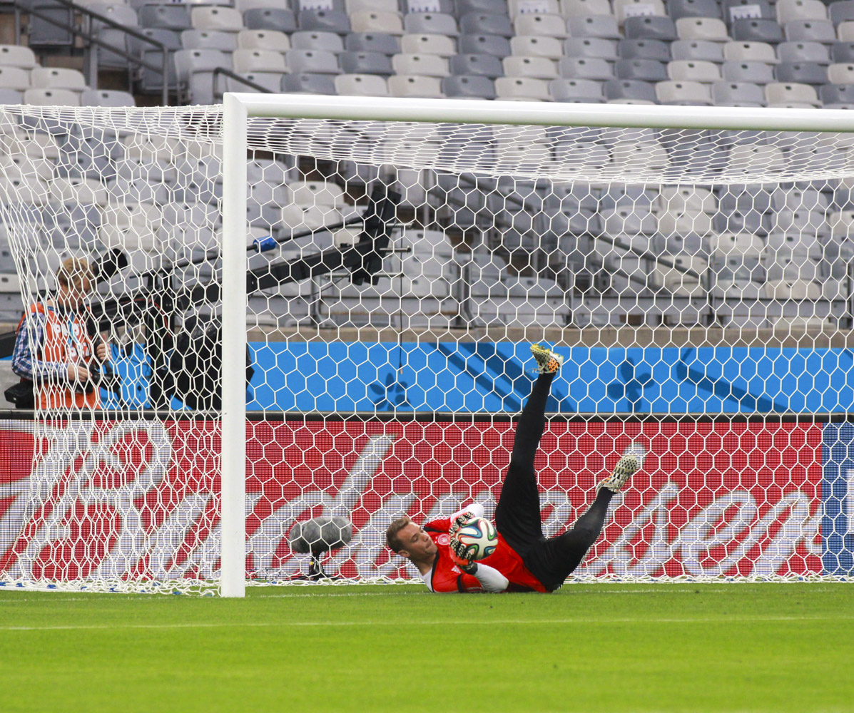 Coaching the German national team for one day before the semifinal game of the world championship in 2014 against Brazil 2014-07-07